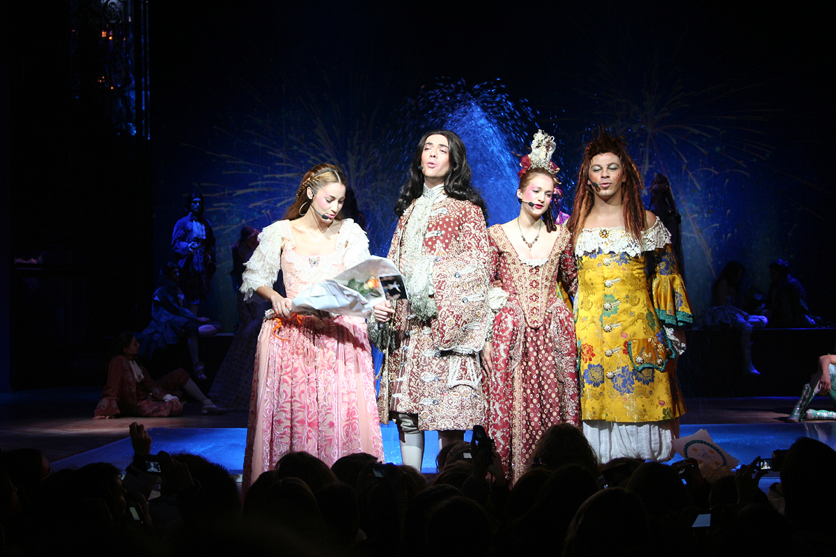 Le Roi Soleil, Musical show in Paris (Palais des Sports), France. Note that King Louis 14th is not played by Emmanuel Moire but by Emmanuel Dahl.